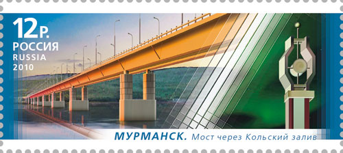 Bridge across the Kola Bay